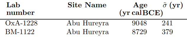 Calibrated Carbon 14 dates for Abu Hureyra as of 2013